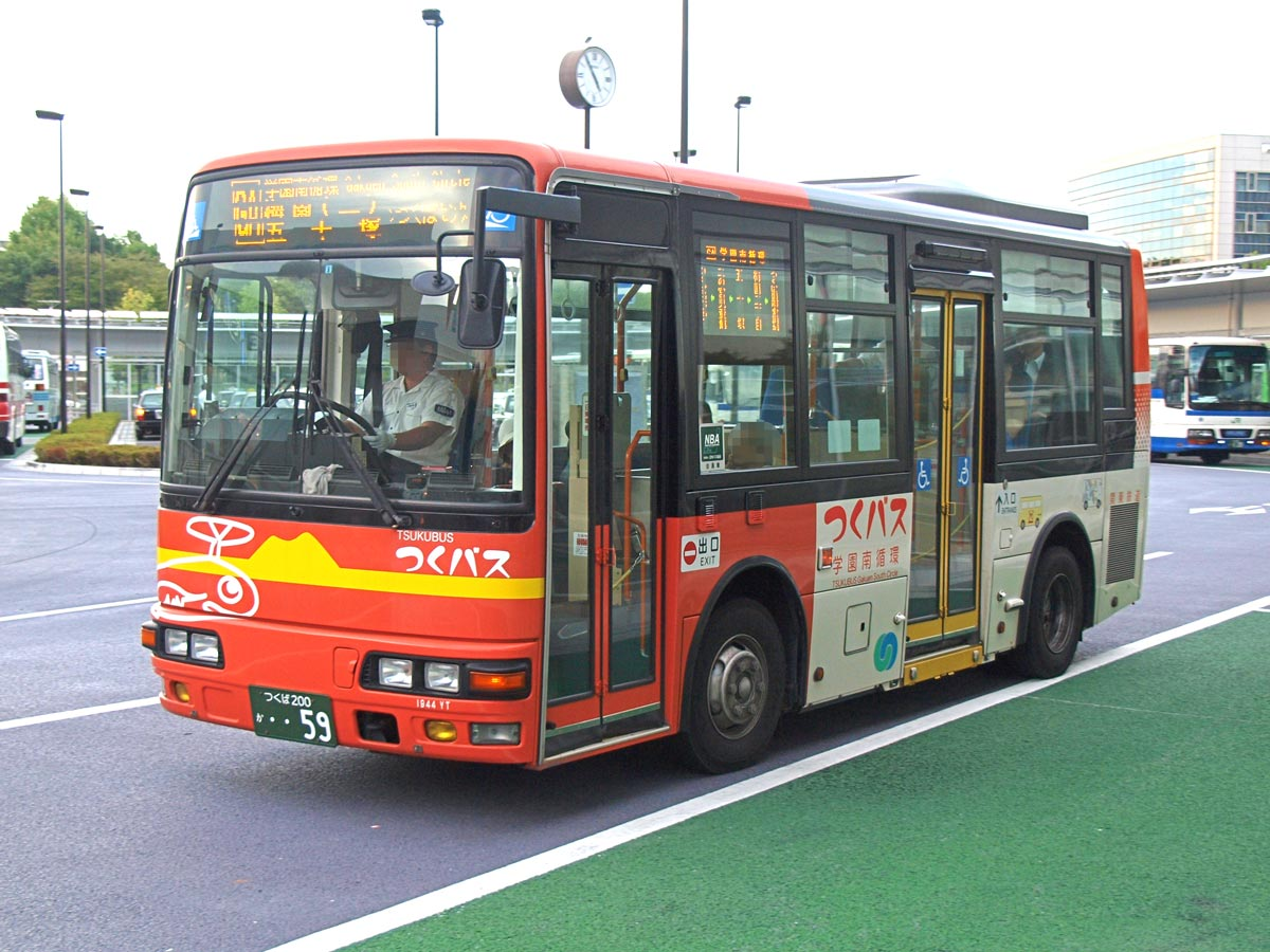 Tsukuba city's "TsukuBus" Gakuen South Circle route at Tsukuba Center. This bus is operated by Kanto railway.